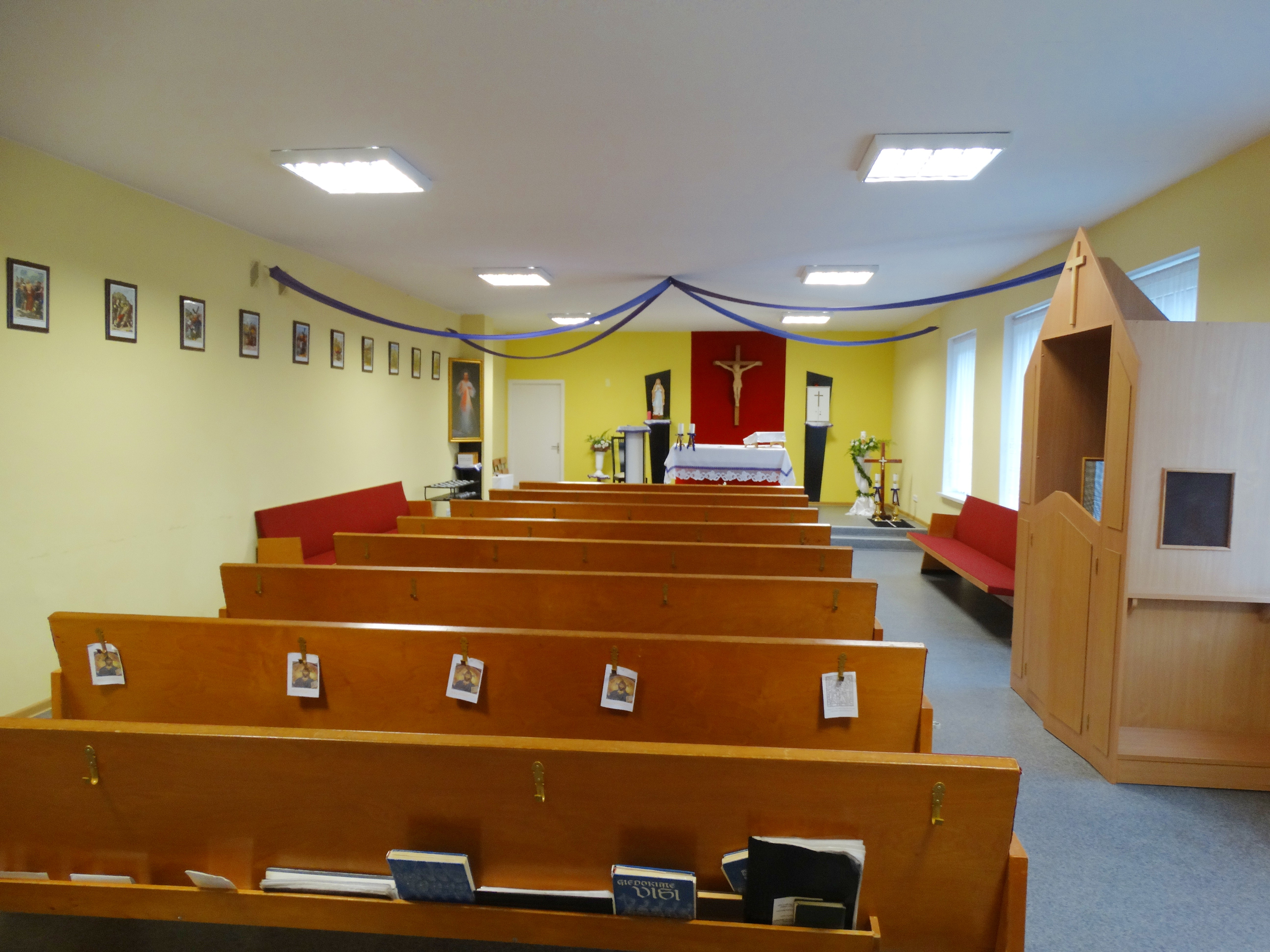 Catholic chapel, Usėnai, Šilutė district, Lithuania